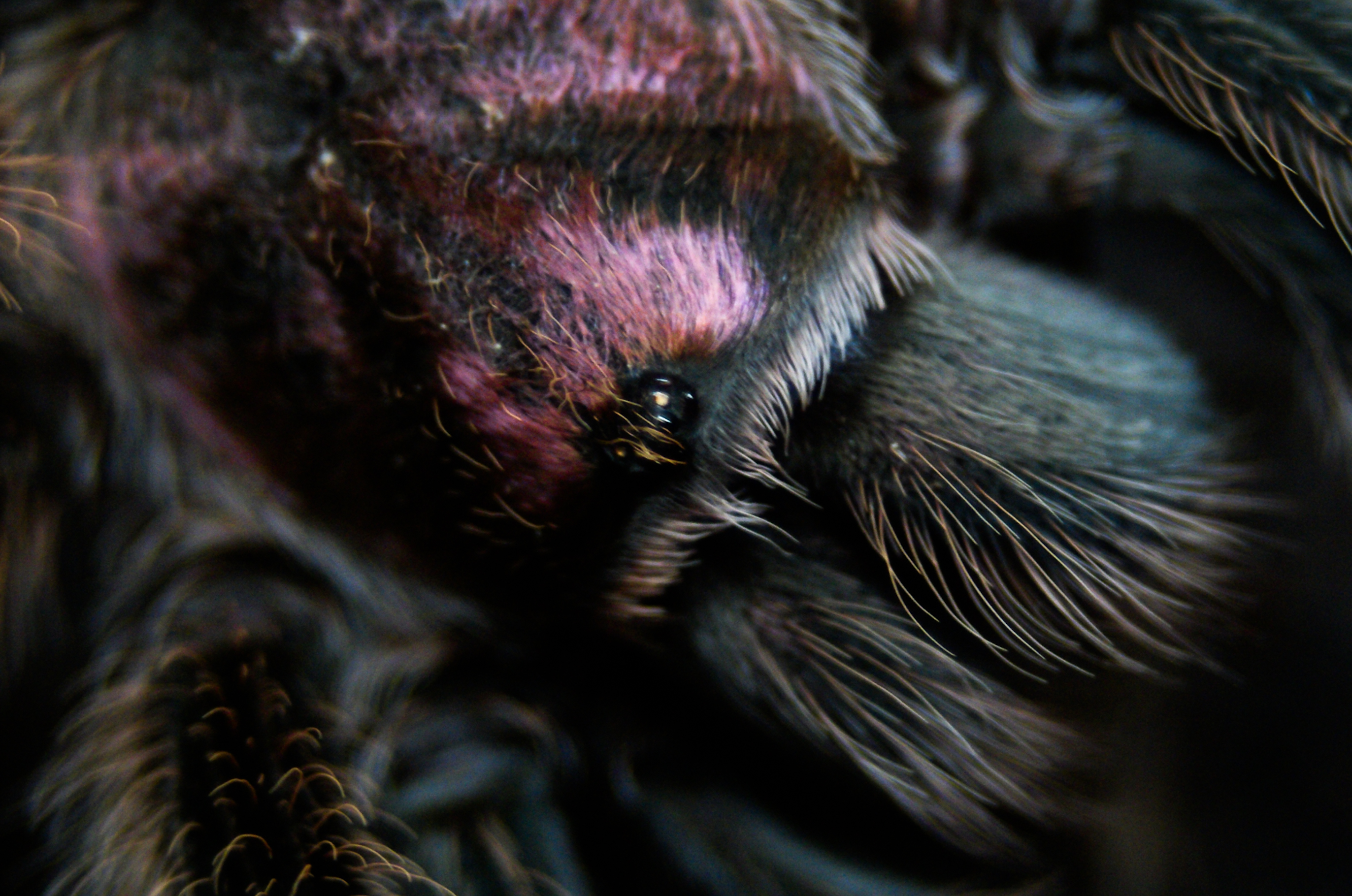 Chilean spider brushed hair, eyes